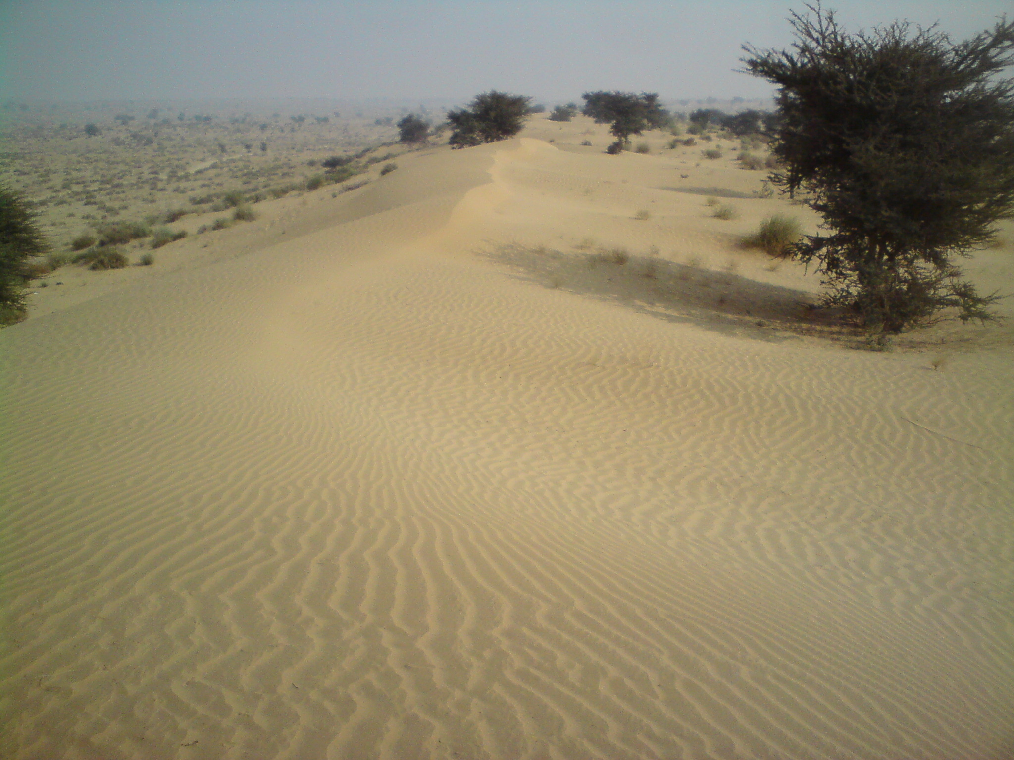 I, Shivender Singh (wikiuser:Shemaroo) have taken this photo with my camera.This photo gives you view of Thar desert of Ganganagar district.This photo is taken on Rawla-Rojhri road in Gharsana tehsil. Shemaroo (talk) 04:15, 30 December 2011 (UTC)